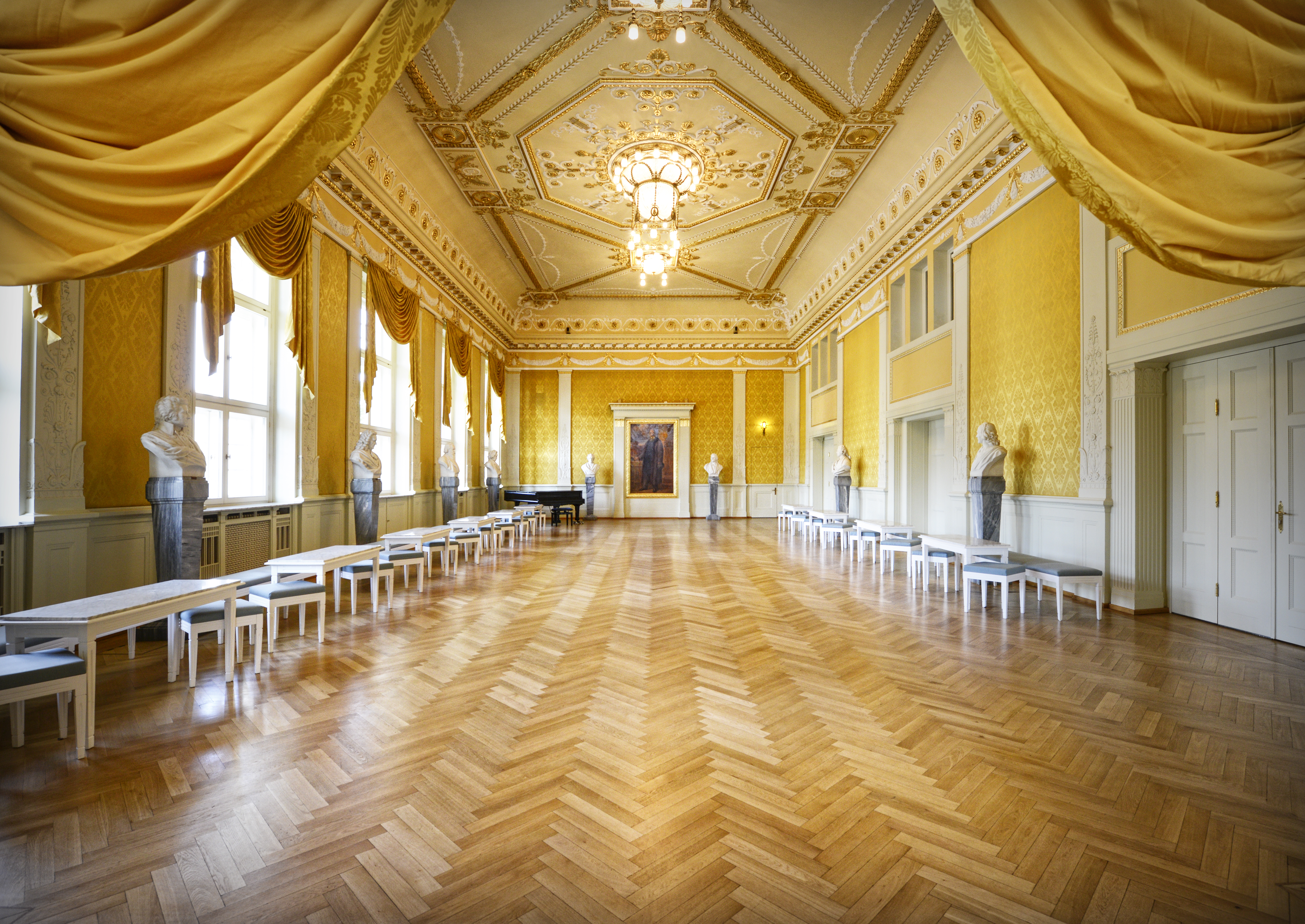 Meiningen Court Theatre